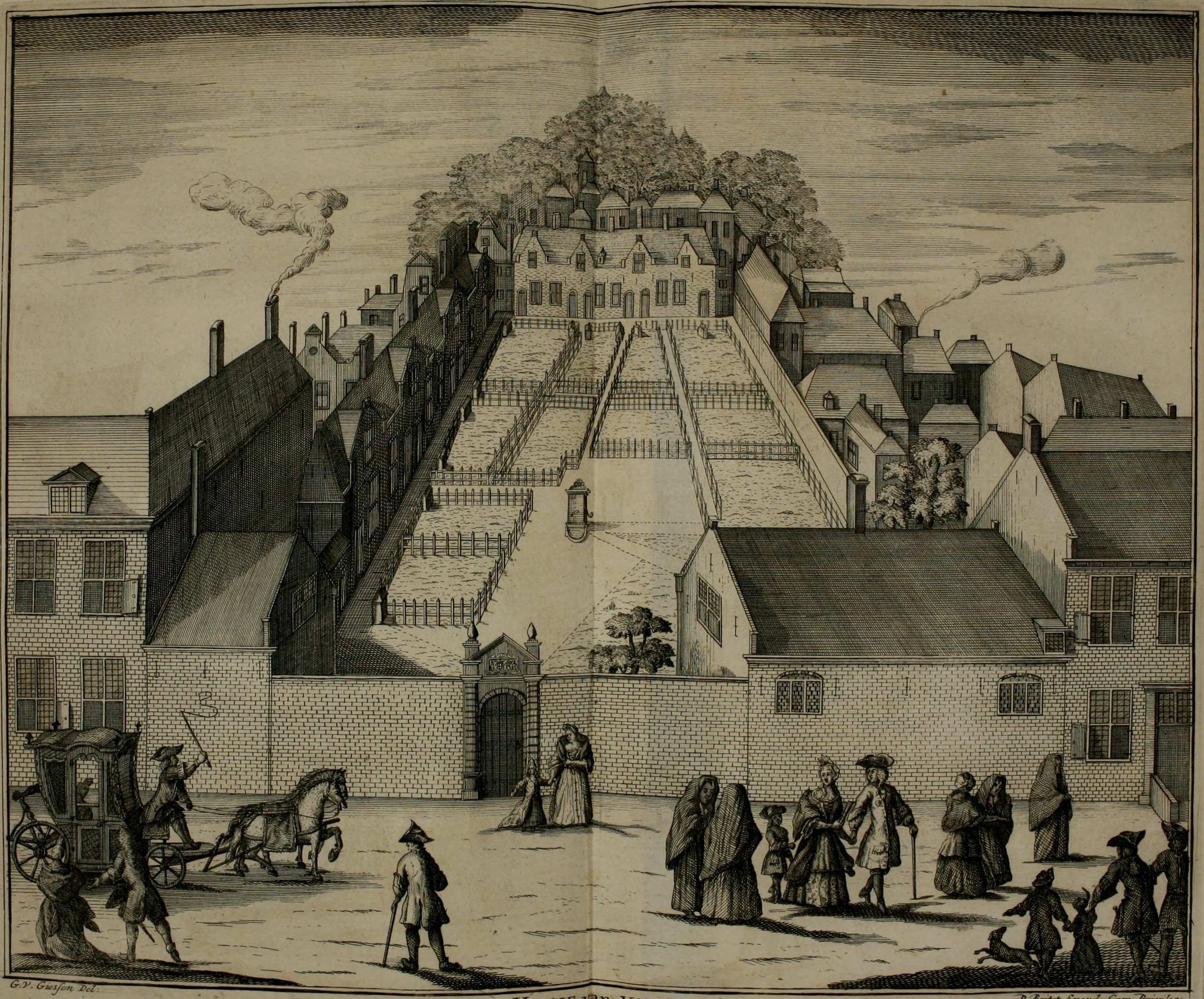 Title: Beschryving van's Graven-hage Year: 1730 (1730s) Authors: Riemer, Jacob de Subjects: Costume Publisher: Te Delft : Boitet Text Appearing Before Image: u Text Appearing After Image: Het Hof JE ^an van dam . ^ £(?i£crt Sxciut: CitT7t^~3r-iit/^: VAN sGliAVEN-HAGE. XVH. Hooftst. f79 H E T H O F J E VAN VAN DAM. Aan de noordzyde van de Juffrouw Ida ftraat vind men nog eendiergelyk gebouw van 13 huisjes, mede voor oude Vrouwen en be-jaarde Vryfters, eertyds geltigt door Floris ivau Dam , in zyn levenSellout van den Hage ( ^ j, en zulks al in de kaart van den Hage vanden jaare 1570. N. j%. bekent met den naam van t oude Wyf-KENHUYSVAN DIE VAN Dam; zynde het oudfte van alien , diein den Hage gevonden worden. Deze Floris had by zyn teftament,gepafleert den 5 September i f 63 , geordonneert het timmeren vantwaalf kameren tot behoef van twaalf oude arme menfchen, met eendertiende voor een man of vrouws-perzoon, die toezigt over de zelvezoude hebben , en daar toe bcfprooken zekere renten en goederen.Hy had 00k zoo tot den voorfz. opbouw, als tot de diredie en ad-miniftratie van de zelve kameren benoemt vier perzoonen by hengeltelt tot Executeurs van het zelve zyn teftamen